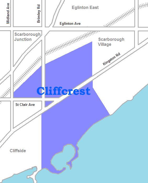 map of Cliffcrest